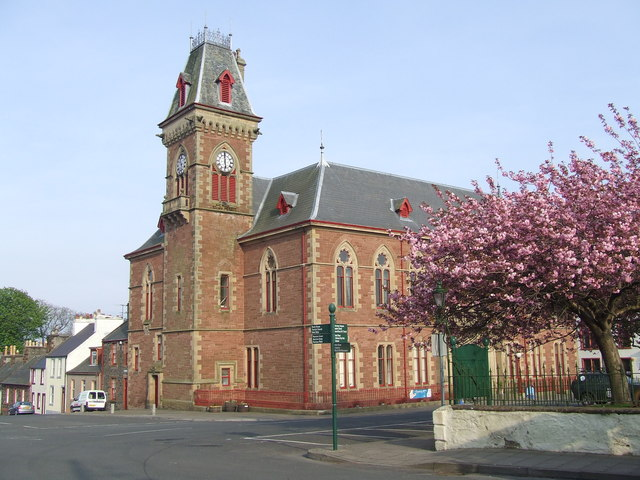 Town Hall & County Buildings, Wigtown